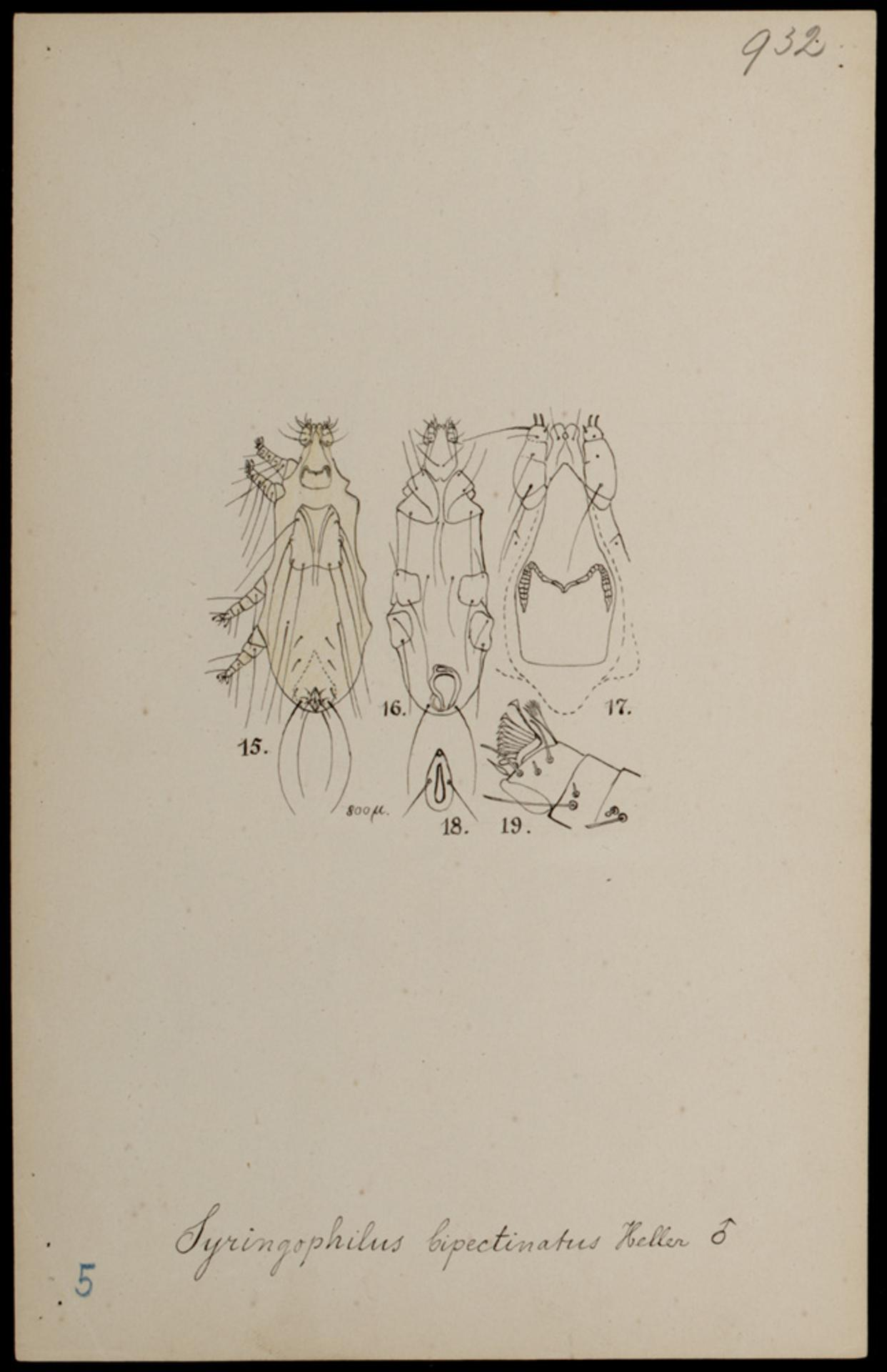 Syringophilus bipectinatus (Heller)